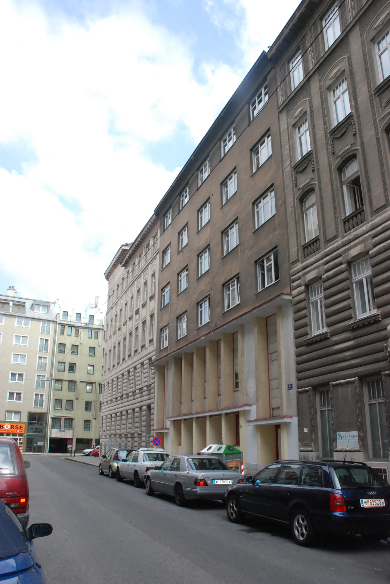 Street view former synagogue building (Kaschlgasse 4 Vienna)